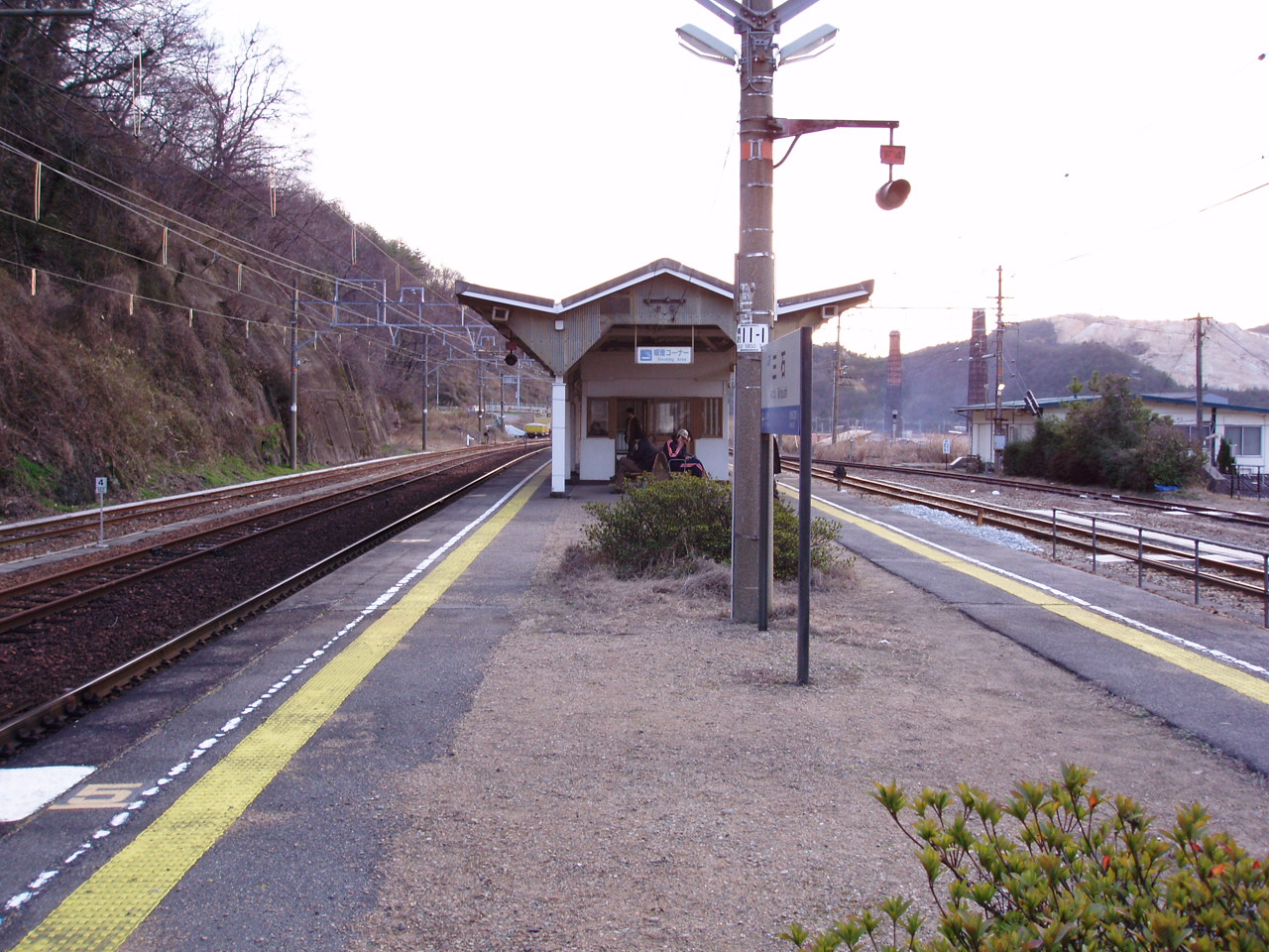 West Japan Railway Sanyo Main Line Mitsuishi Station Platform 西日本旅客鉄道 山陽本線 三石駅 駅ホーム